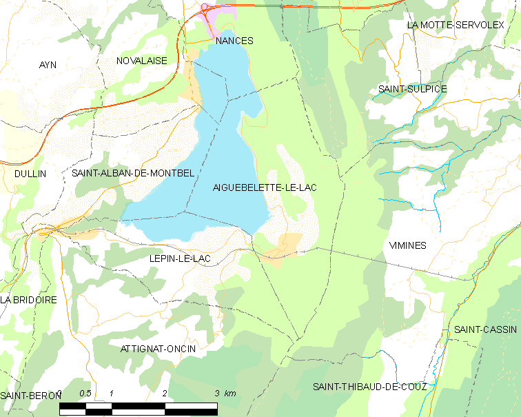 Map of French municipality